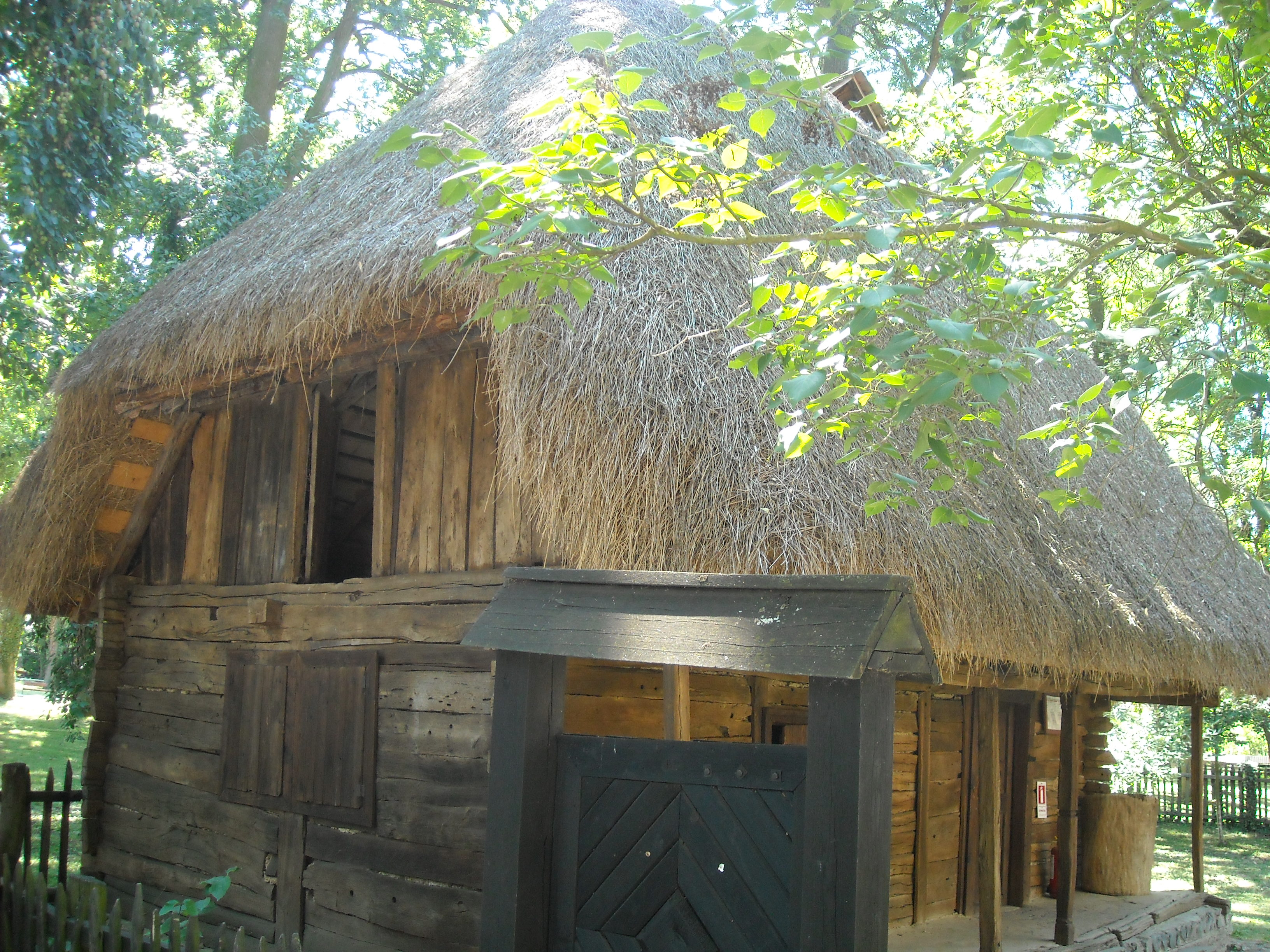 wooden peasant's house from the second half of the 18th century (Bata on the Mureș river)